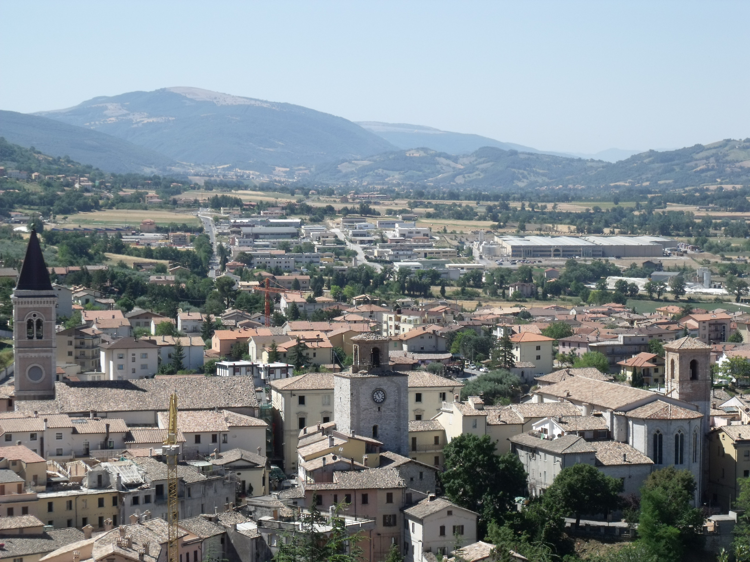 Panorama of Gualdo Tadino, Province of Perugia, Umbria, Italy